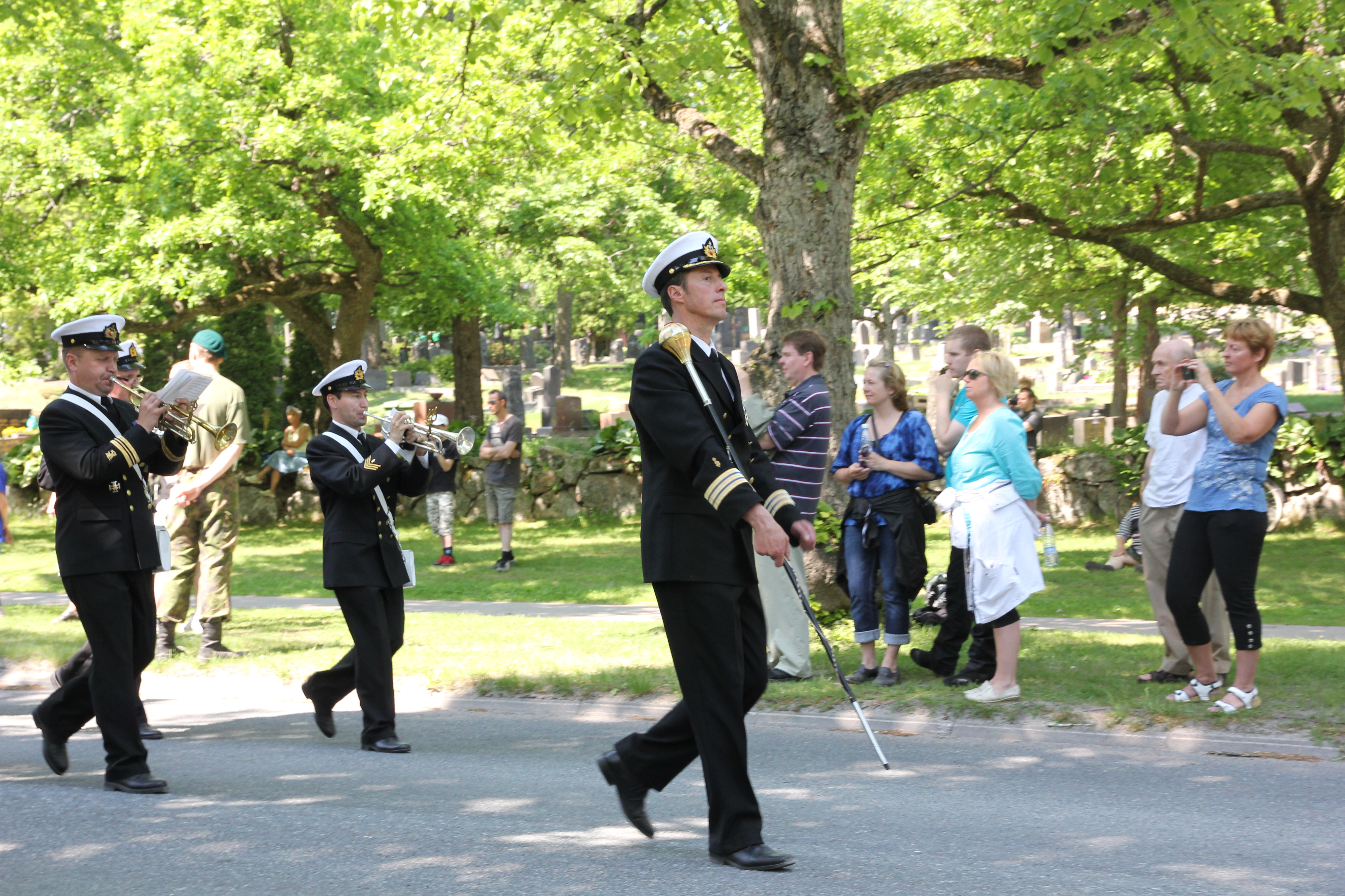 Military band during the Finnish military Flag Day 2013 parade along Raaseporintie road in Tammisaari.